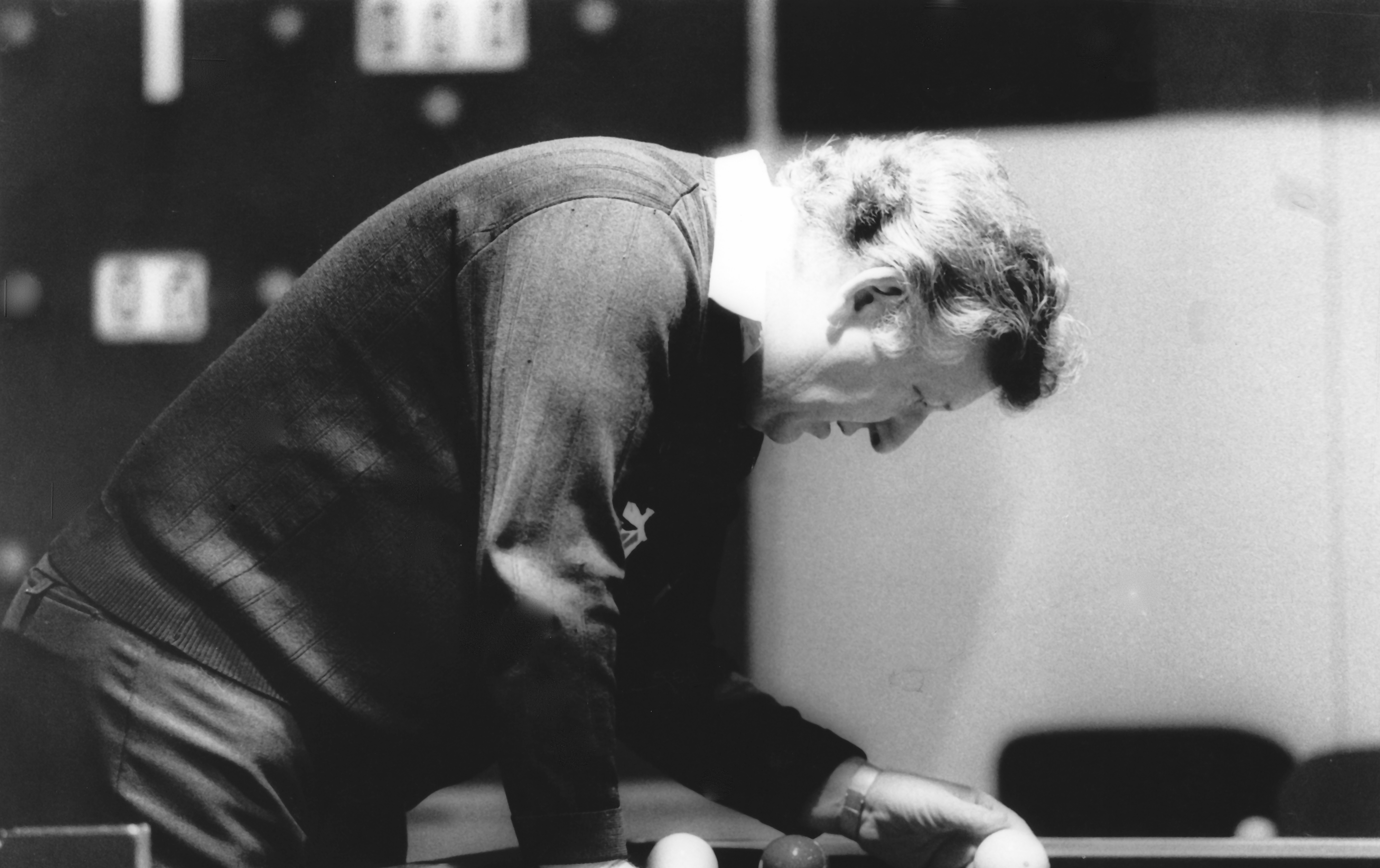 1986 One-cushion european championship in Dülmen, Germany. Raymond Ceulemans